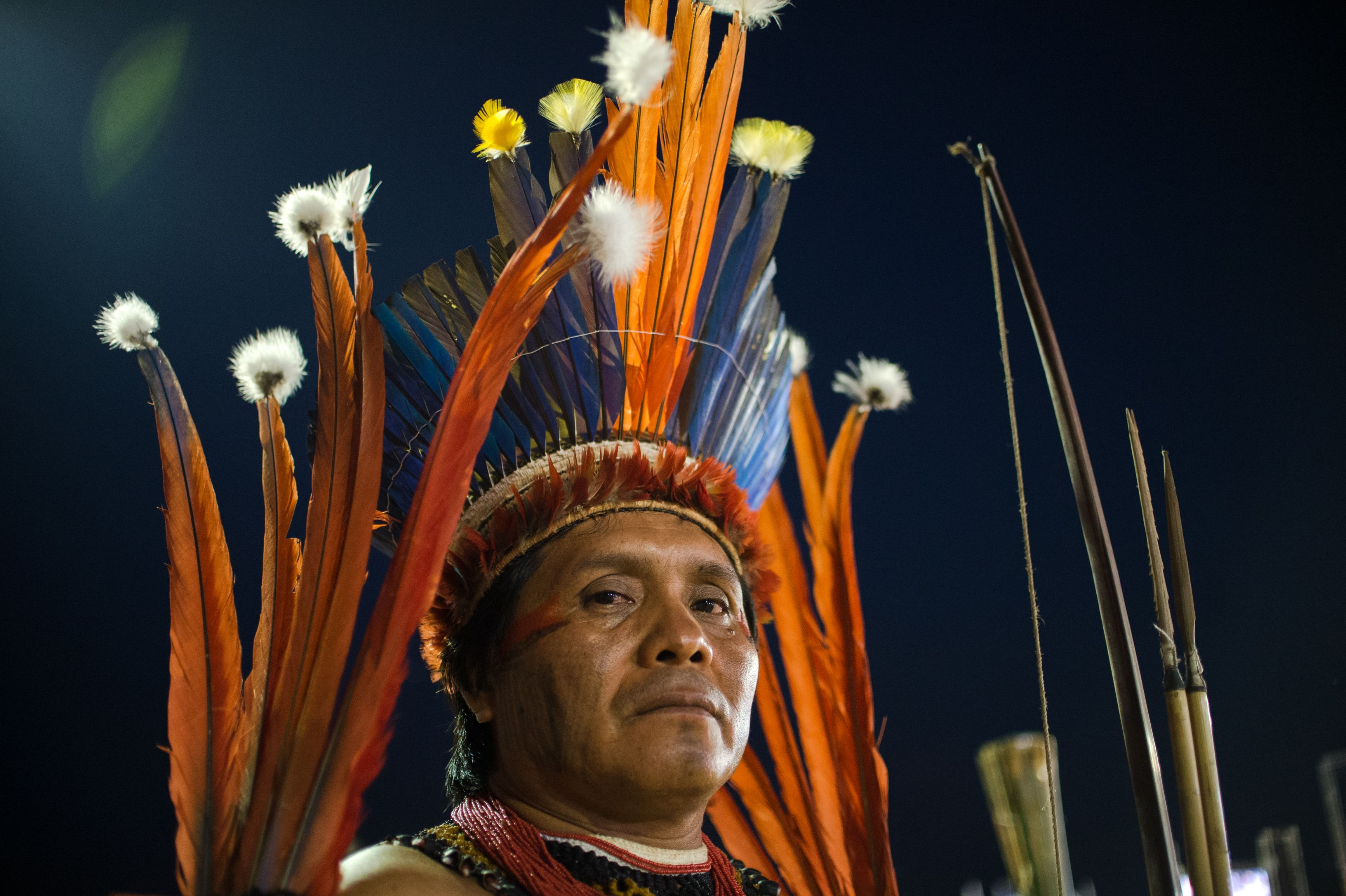 Photo by Marcelo Camargo/Agência Brasil CCBY3.0